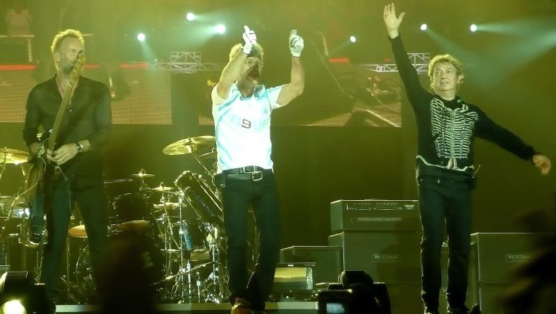 The POLICE Live @Le Vélodrome 03/06/2008